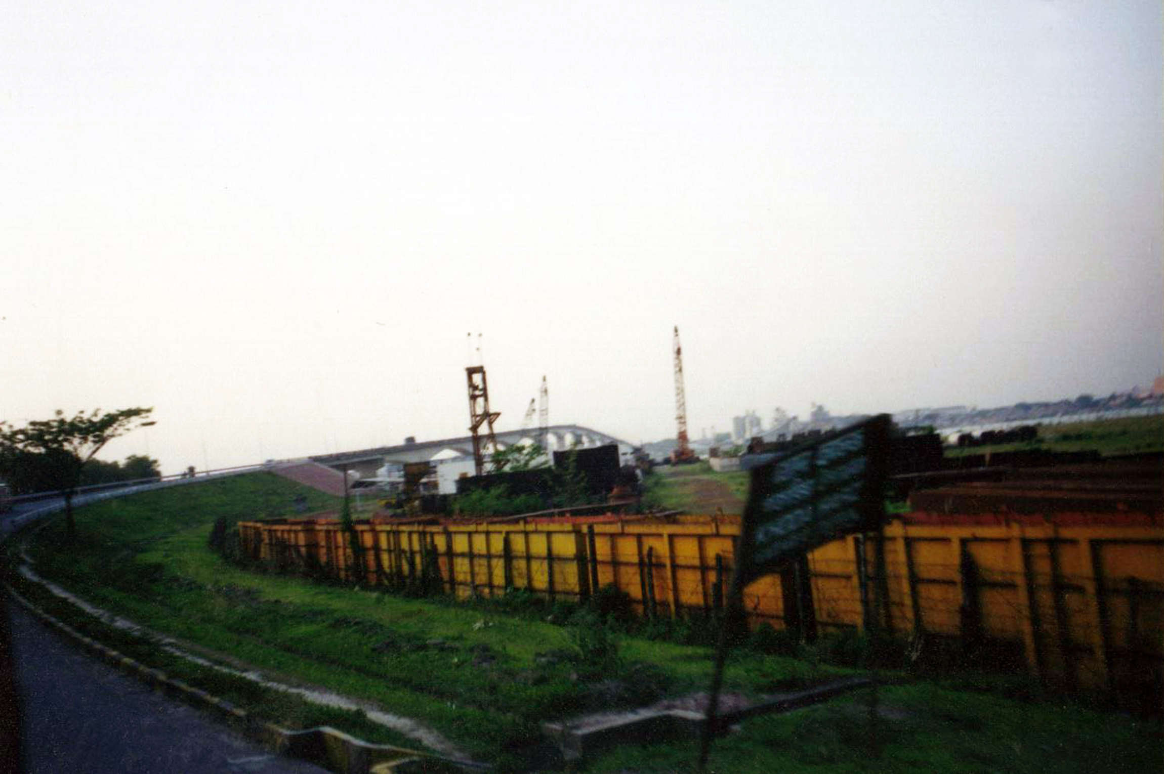 Picture of Meghna Bridge taken on way from Comilla to Dhaka, Bangladesh.